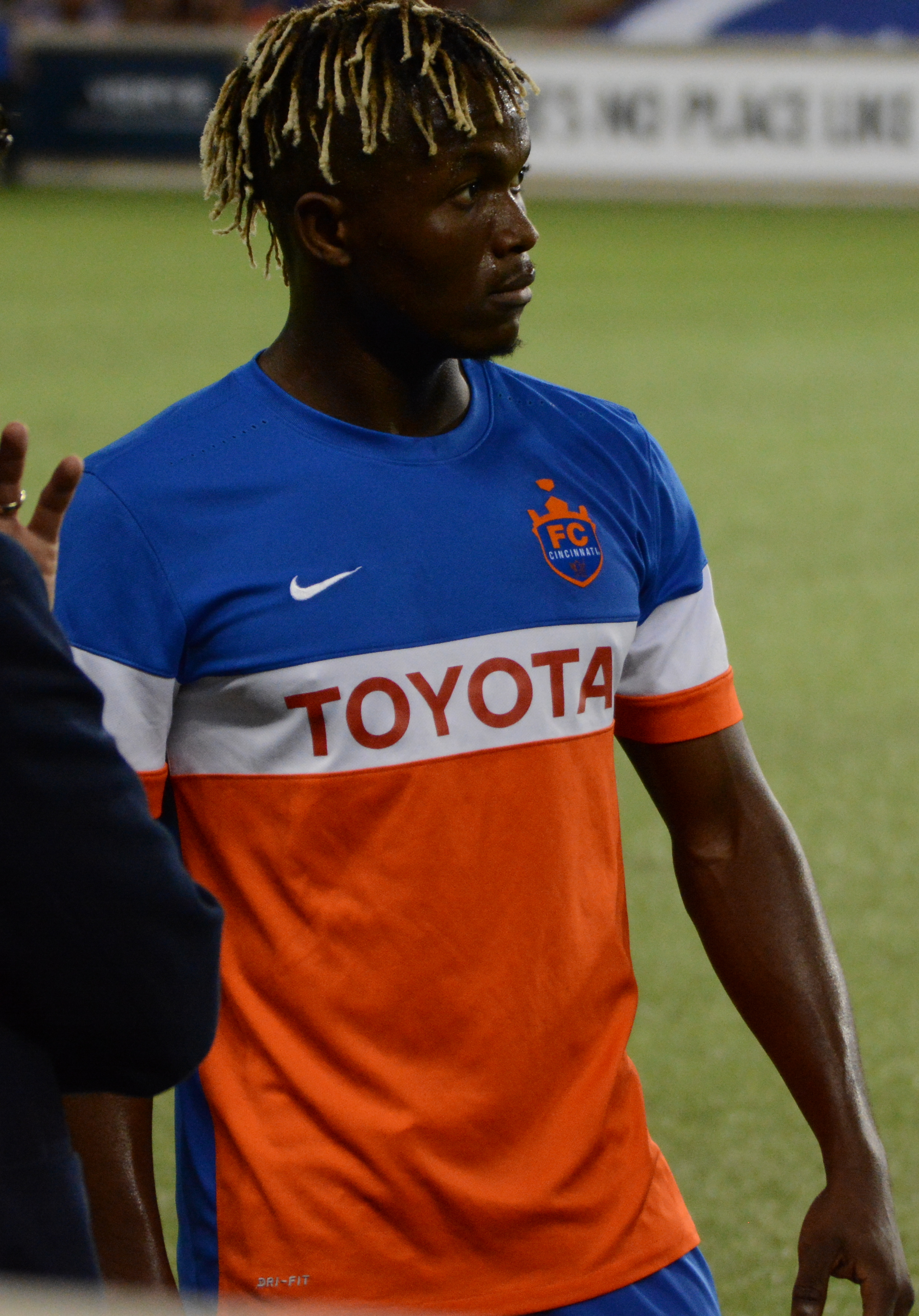 Alan Koch, Victor Mansaray Taken during a match between FC Cincinnati and Tampa Bay Rowdies at Nippert Stadium in Cincinnati, USA on April 19, 2017.